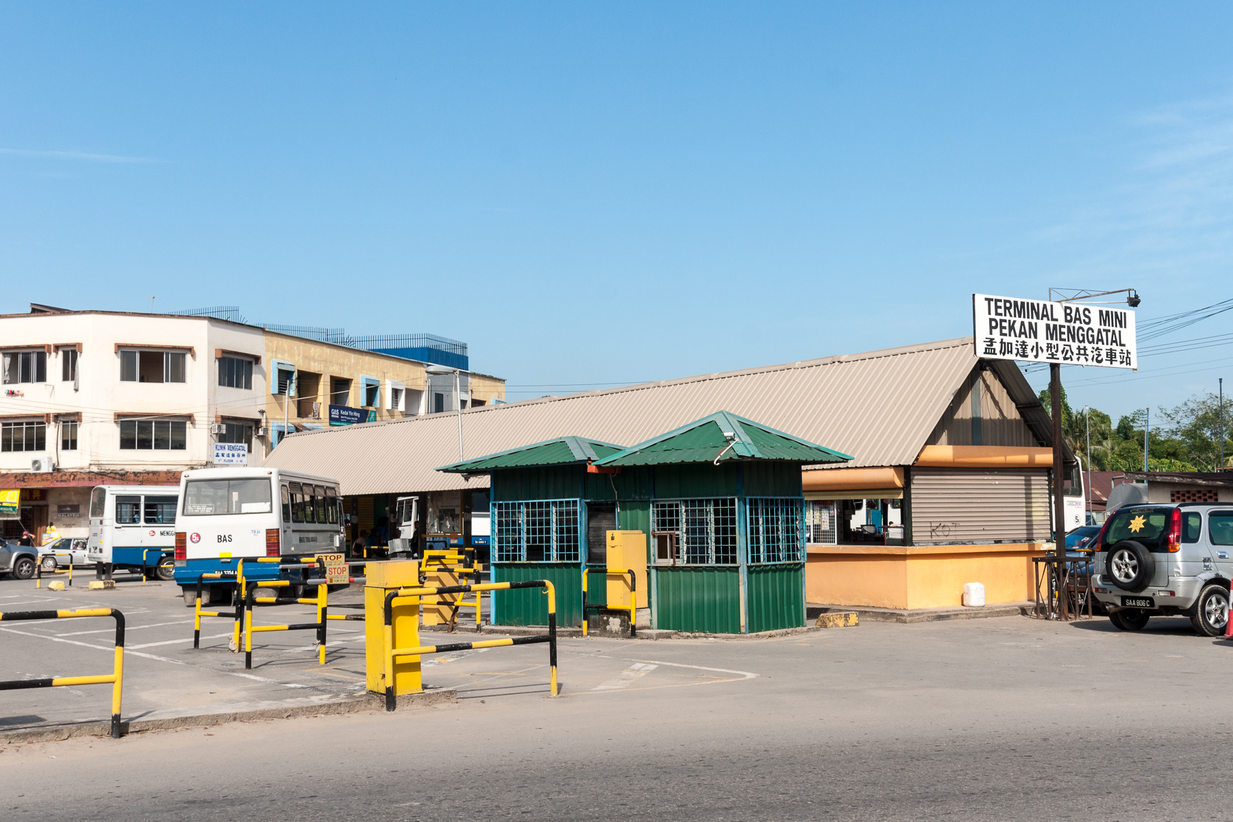 Menggatal, Sabah: Terminal Mini Bus at the market place